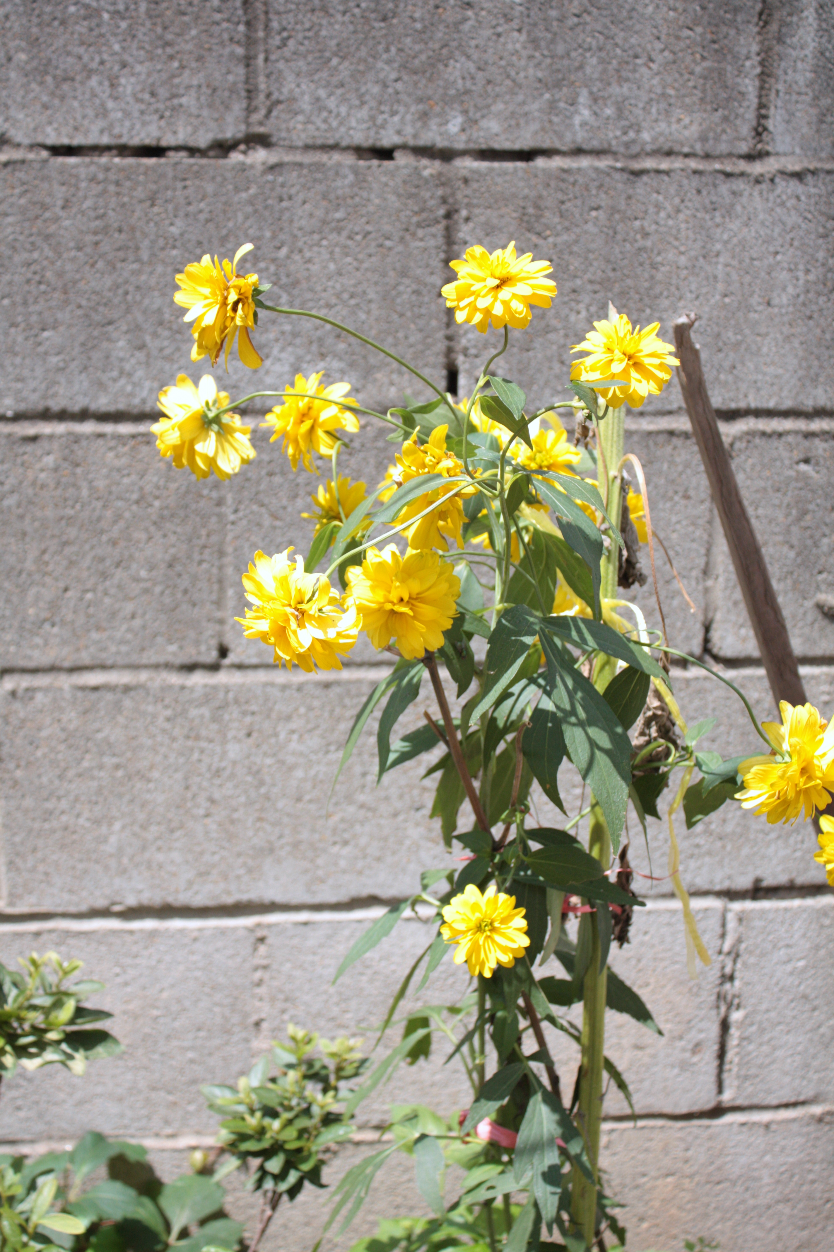 Rudbeckia laciniata var. hortensis in Bupyeong, Korea